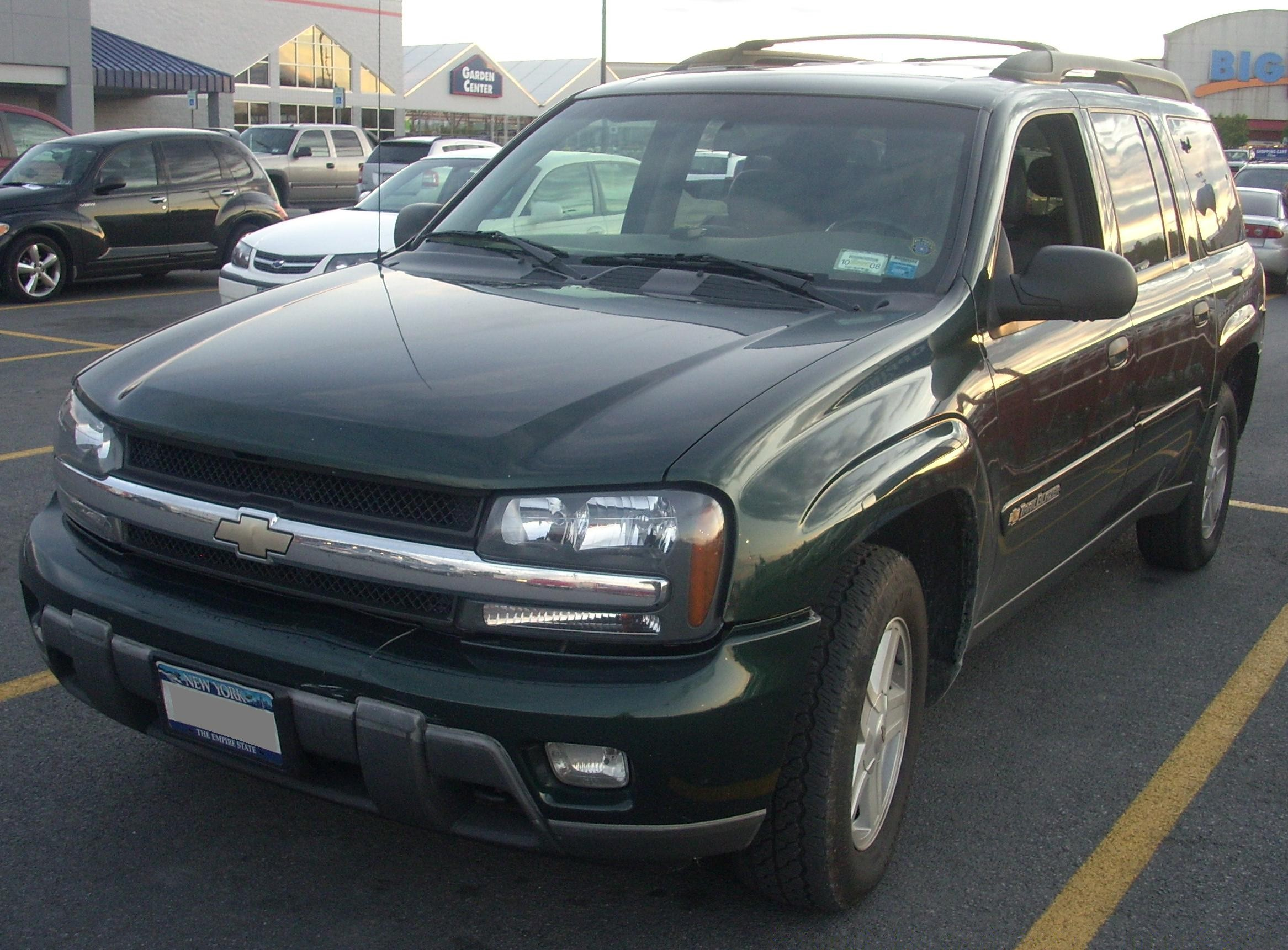 2002-2004 Chevrolet TrailBlazer photographed in Plattsburgh, New York, USA.